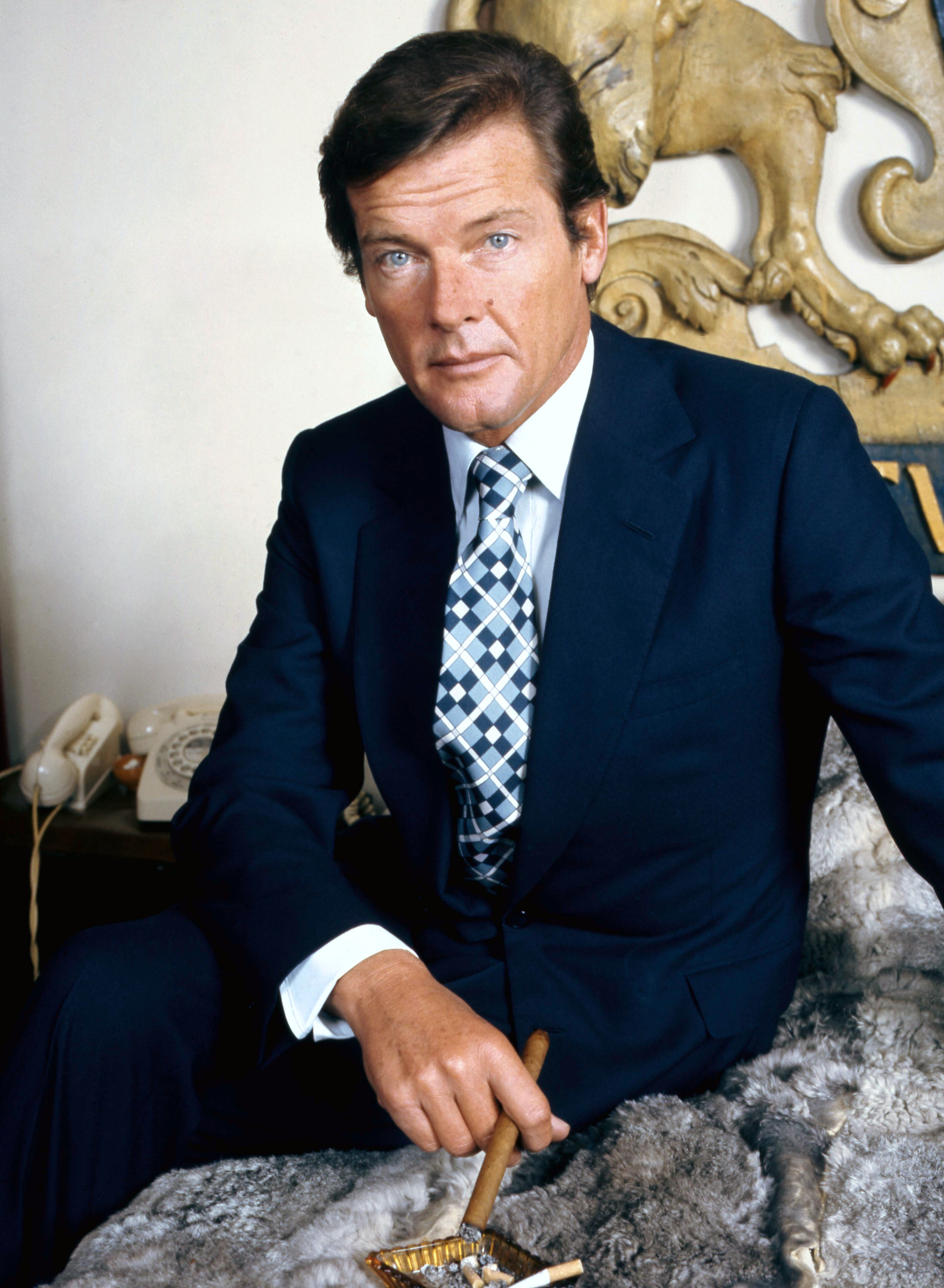 Sir Roger Moore at photographer's studio, Belgravia, London